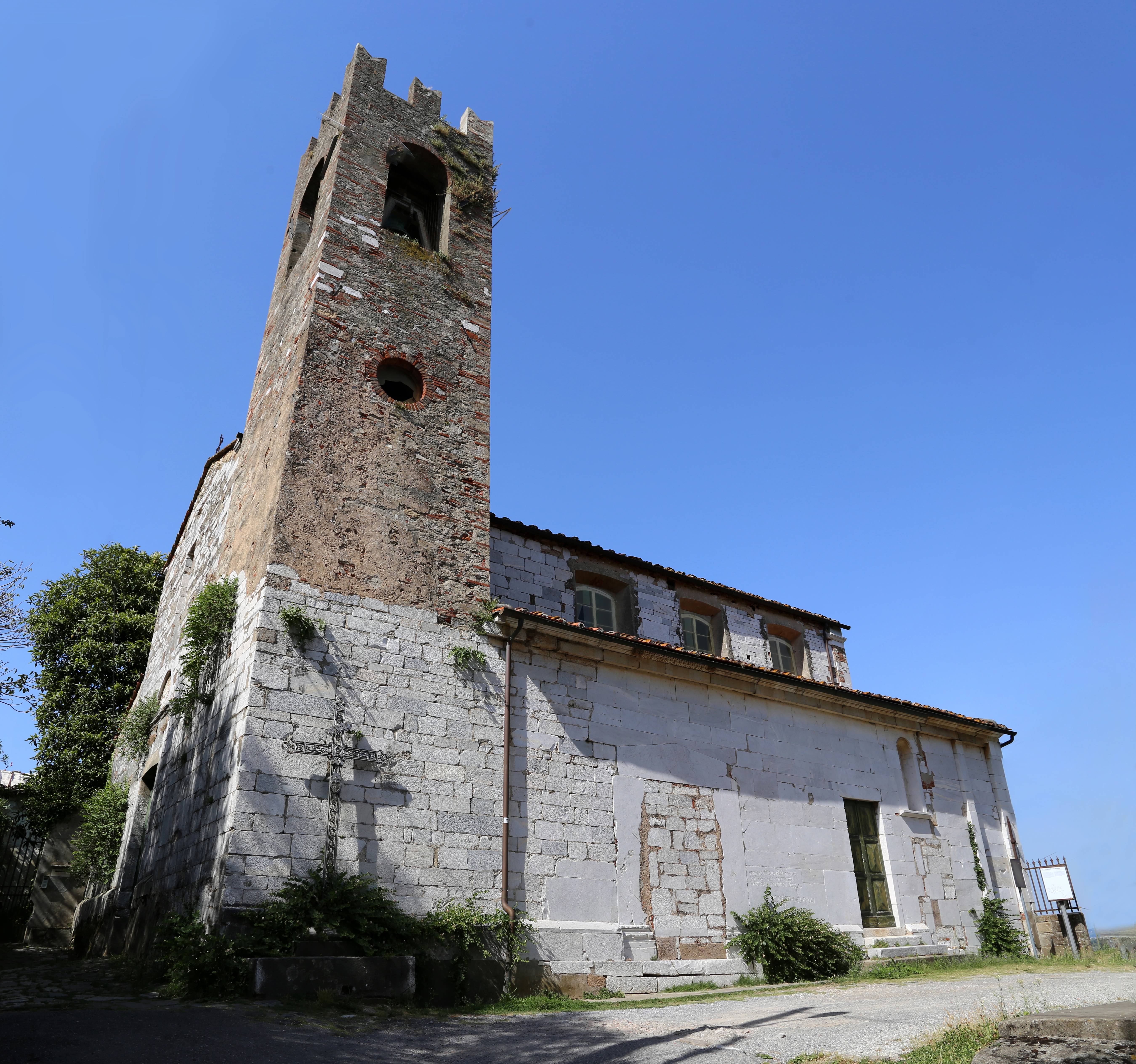 San Michele in Escheto (Lucca)